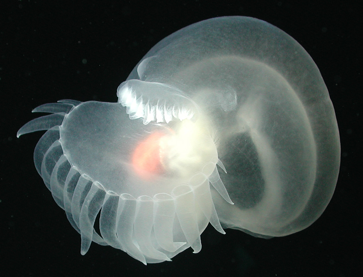 Caption: Newly discovered sea slug (Order Nudibranchia) swimming on the flank of Davidson Seamount at 1498 meters water depth. Image ID: expl0806, Voyage To Inner Space - Exploring the Seas With NOAA Collection Location: California, Davidson Seamount